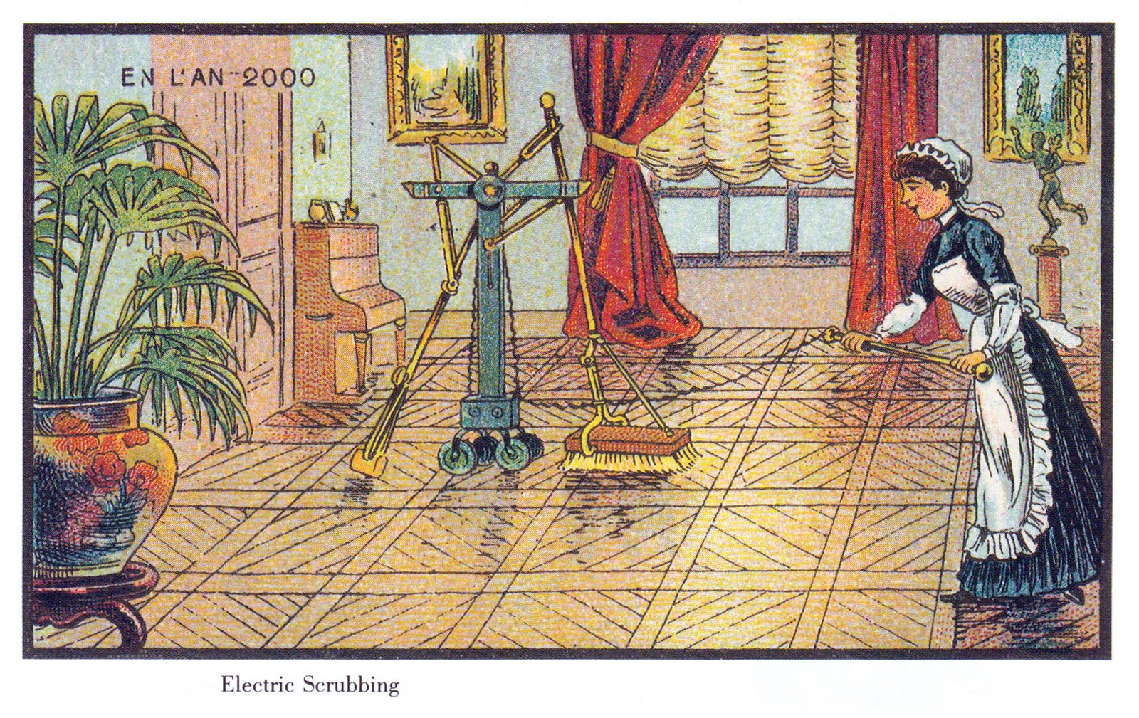 France in 2000 year (XXI century). Electric scrubbing. France, paper card by Jean-Marc Côté.